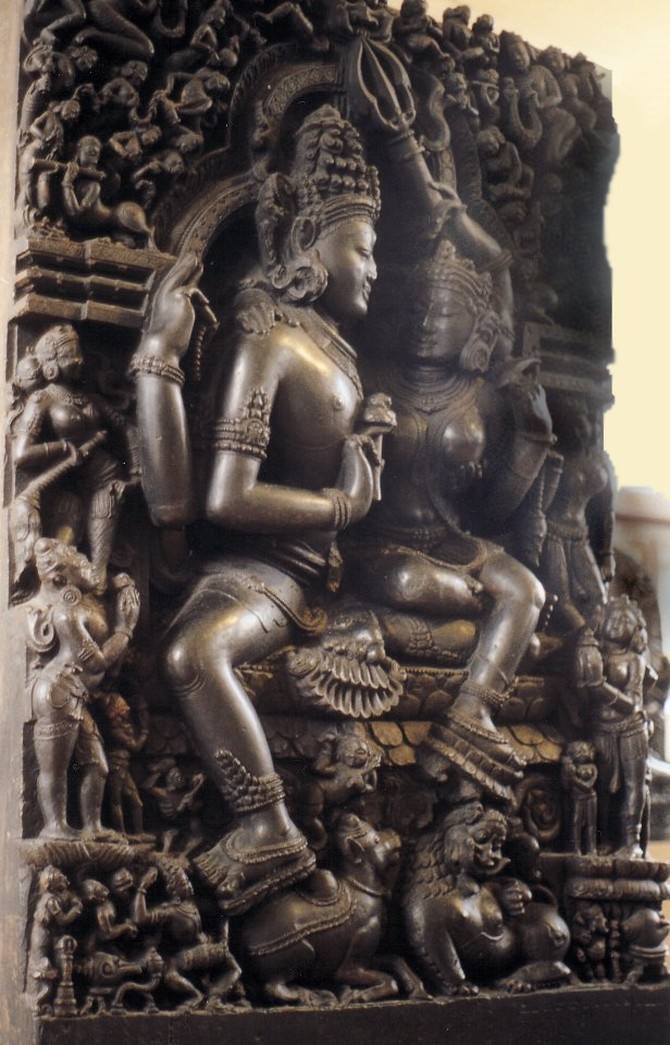 British MuseumSiva and Parvarti